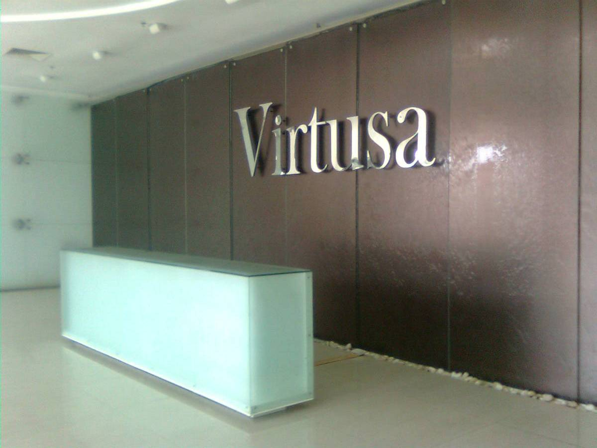 Virtusa Lobby, Colombo, Sri Lanka